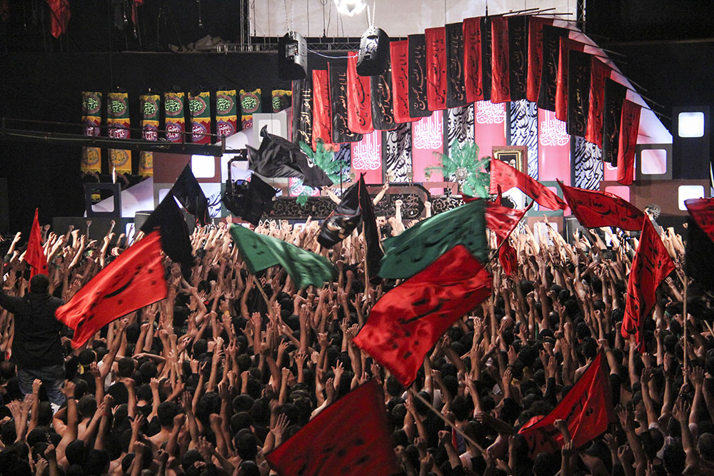 Mourning of Muharram is held in majority of cities and villages in Iran by Shia Muslims annually. Although all sort of ceremonies are performed for Imam Hossein and his followers martyrdom remembrance, they have different styles and rules referring to various cultures.